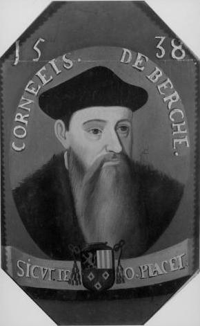 Image of Corneille de Berghes/Cornelis van Bergen (†1560), Prince-Bishop of Liège from 1538 till 1544